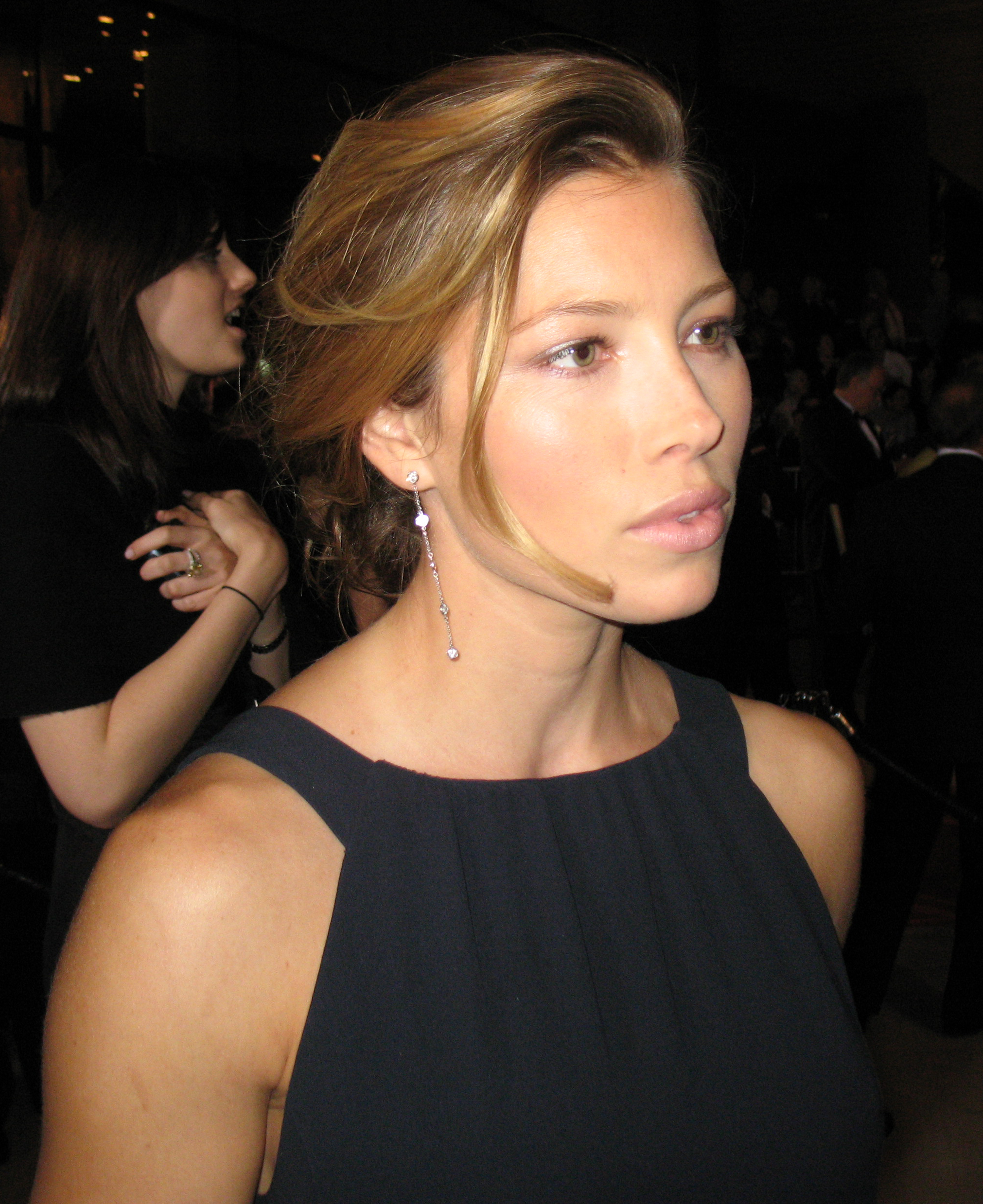 Jessica Biel in Palm Springs International Film Festiva.